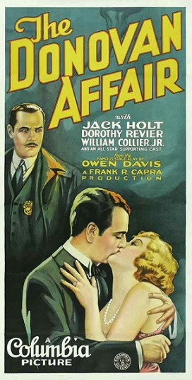 Poster del film The Donovan Affair (1929).